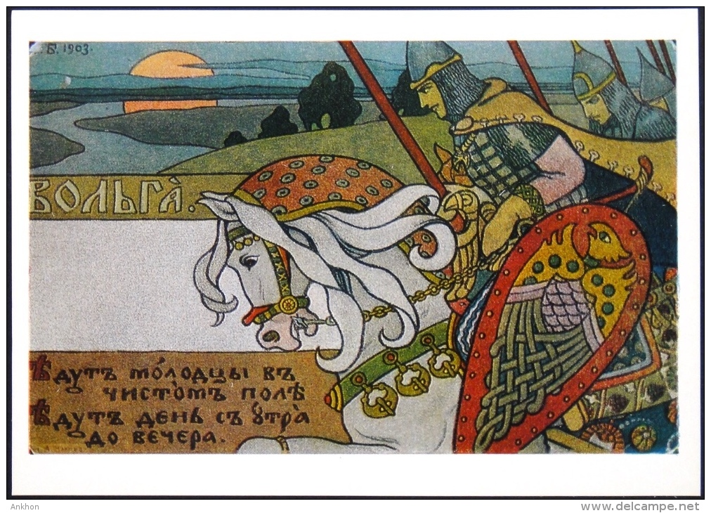 Bogatyr Volga. From russian bylina. Postcard